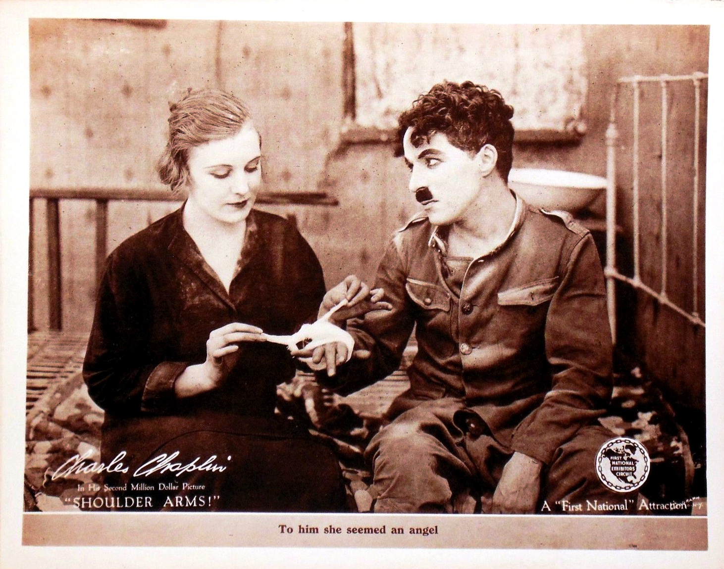 Lobby card for the American comedy film Shoulder Arms (1918).